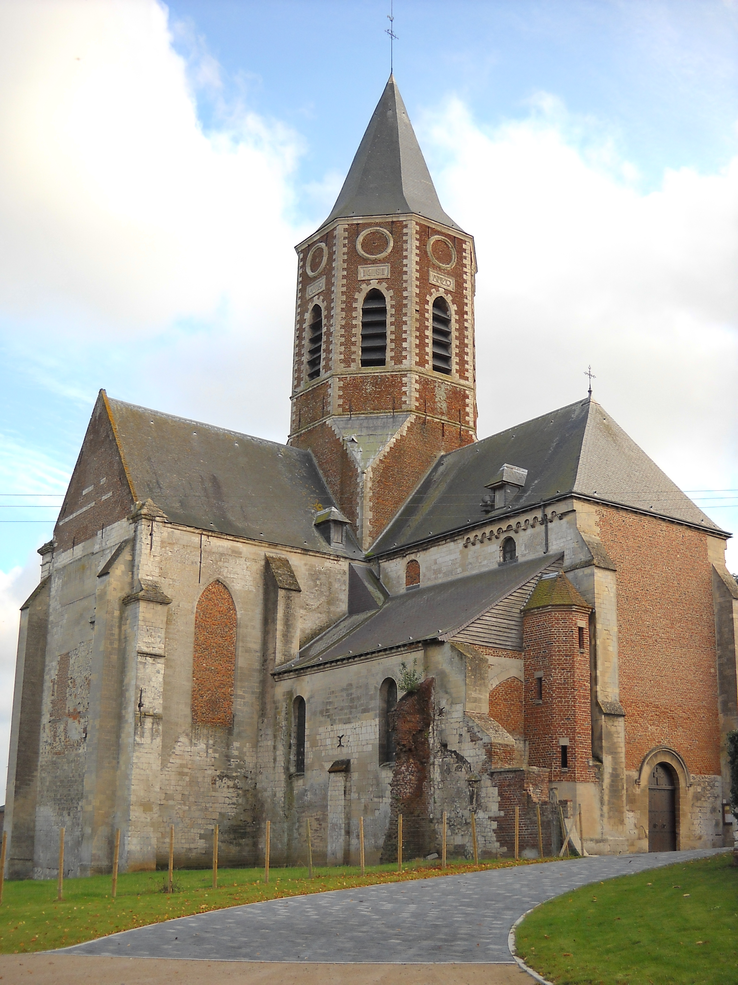 The church of Ham-en-Artois, Pas-de-Calais, France.